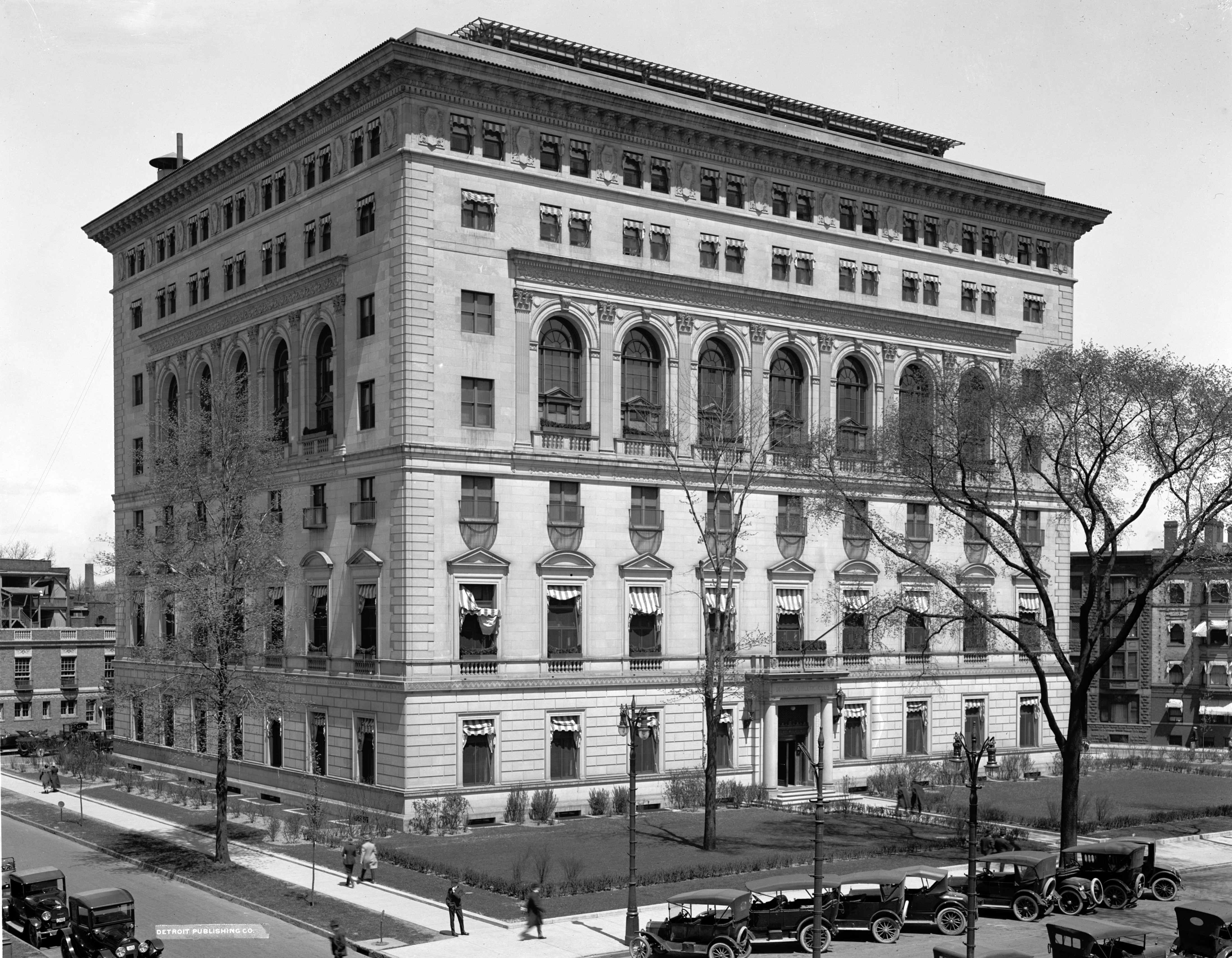 Detroit Athletic Club, Detroit, Mich..